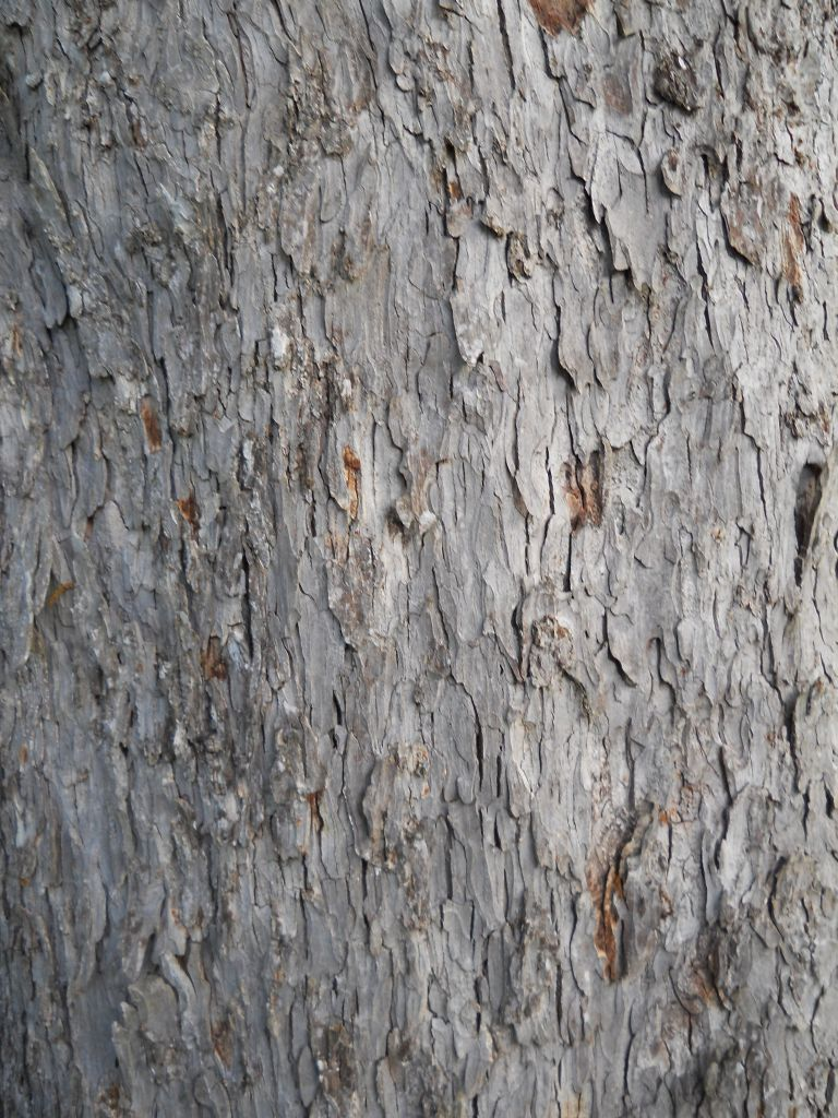 Bark of mature pecan tree